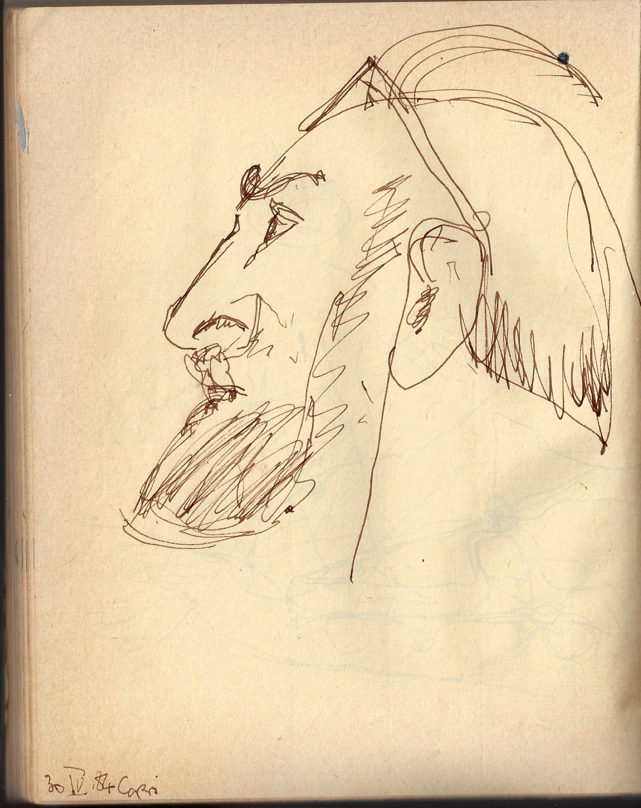 Zeichnung aus Skizzenbuch von Hans-Peter Bergmann entnommen. Das Bild entstand nach einer Hypnosesitzung mit Prof. Dr. Dieter Vaitl im April 1984 auf Capri